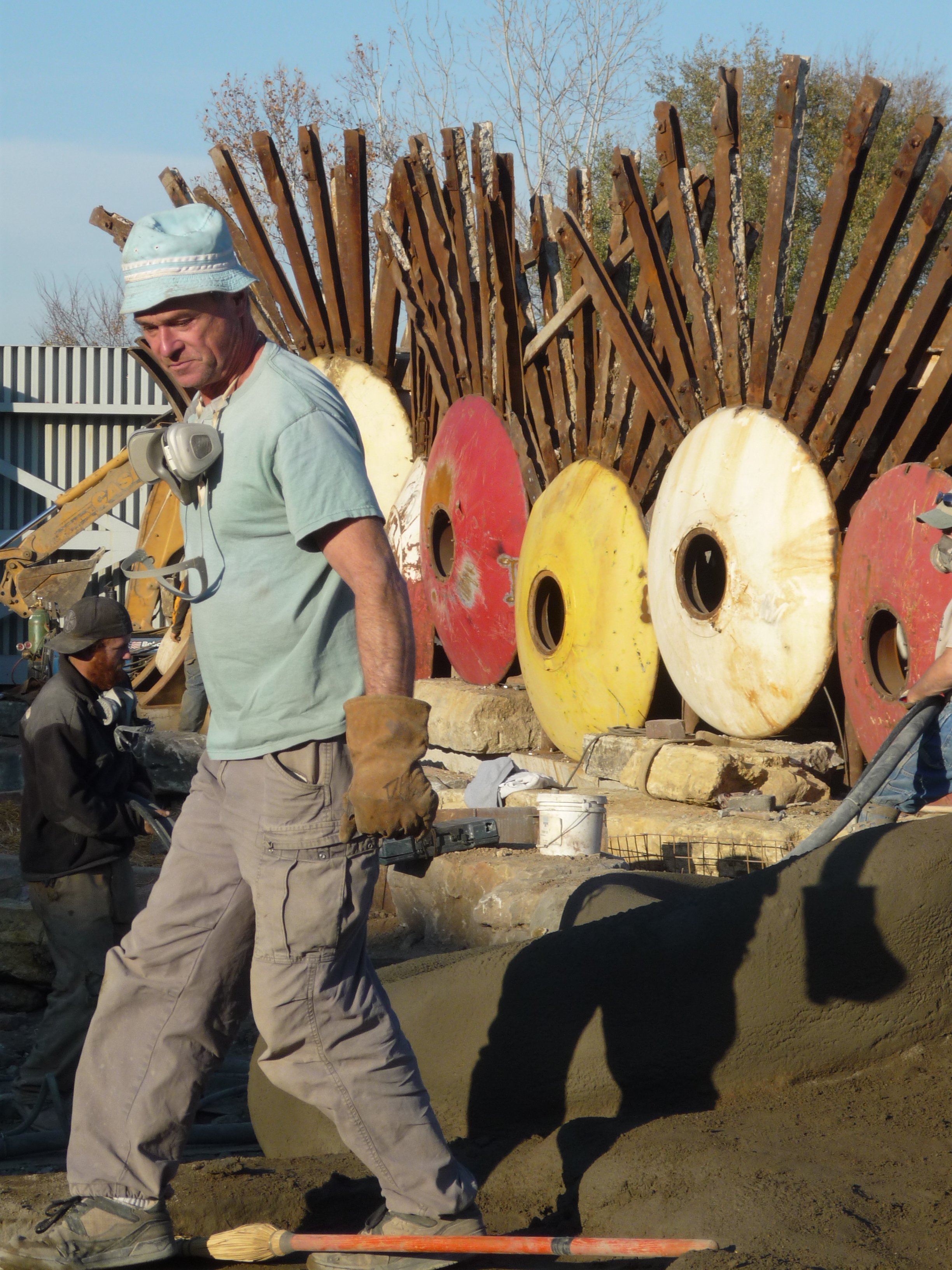 Bob Cassilly working on a dragon sculptor in Trailnet RiverView Park in St. Louis, Missouri, in November 2008.